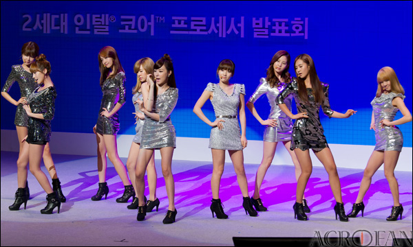 SNSD Visual Dream World Premiere Showcase